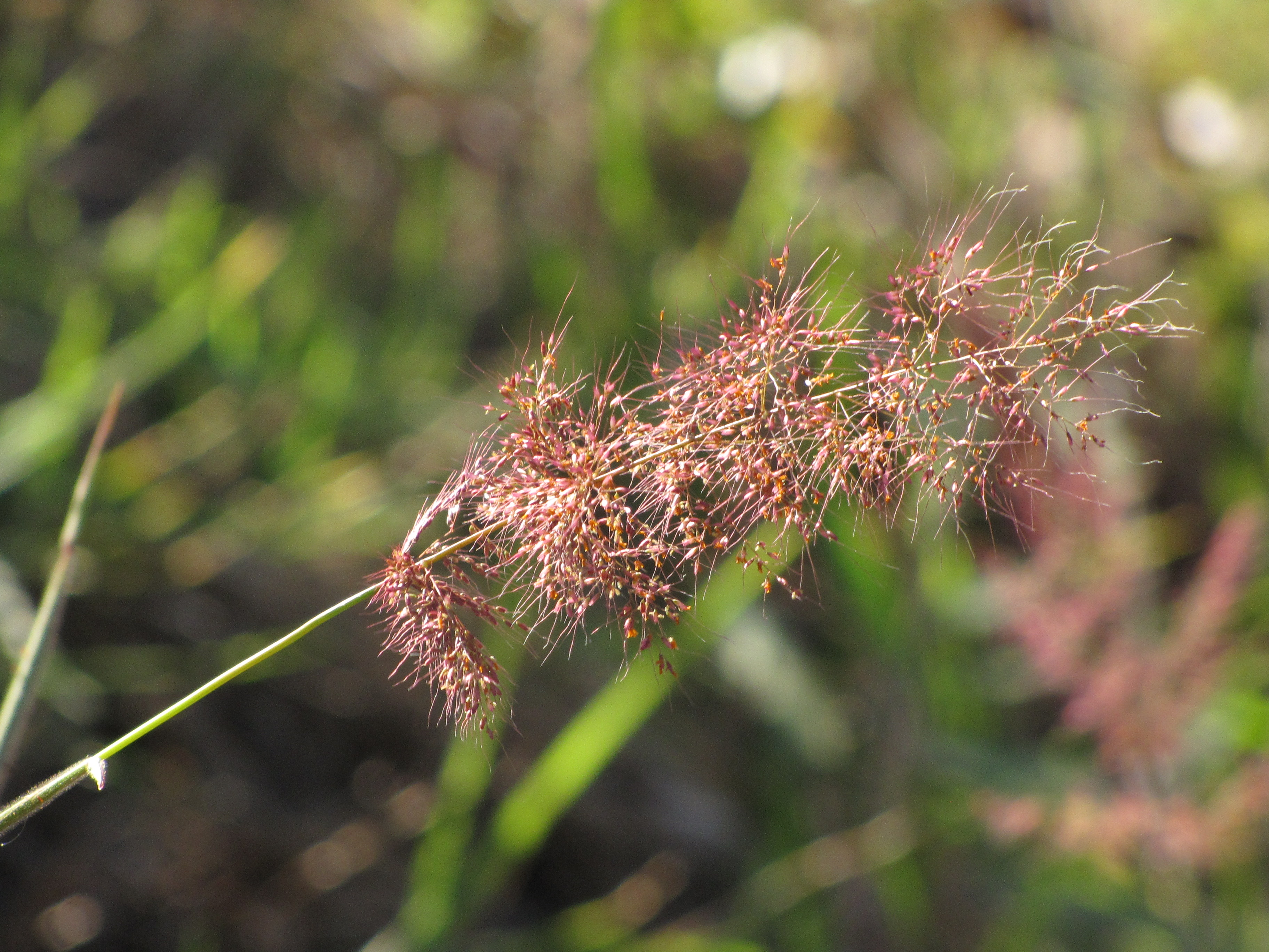 Melinis minutiflora (Molasses grass) Red flowers at Hawea Pl Olinda, Maui, Hawaii. December 07, 2011 #111207-1628 Image Use Policy